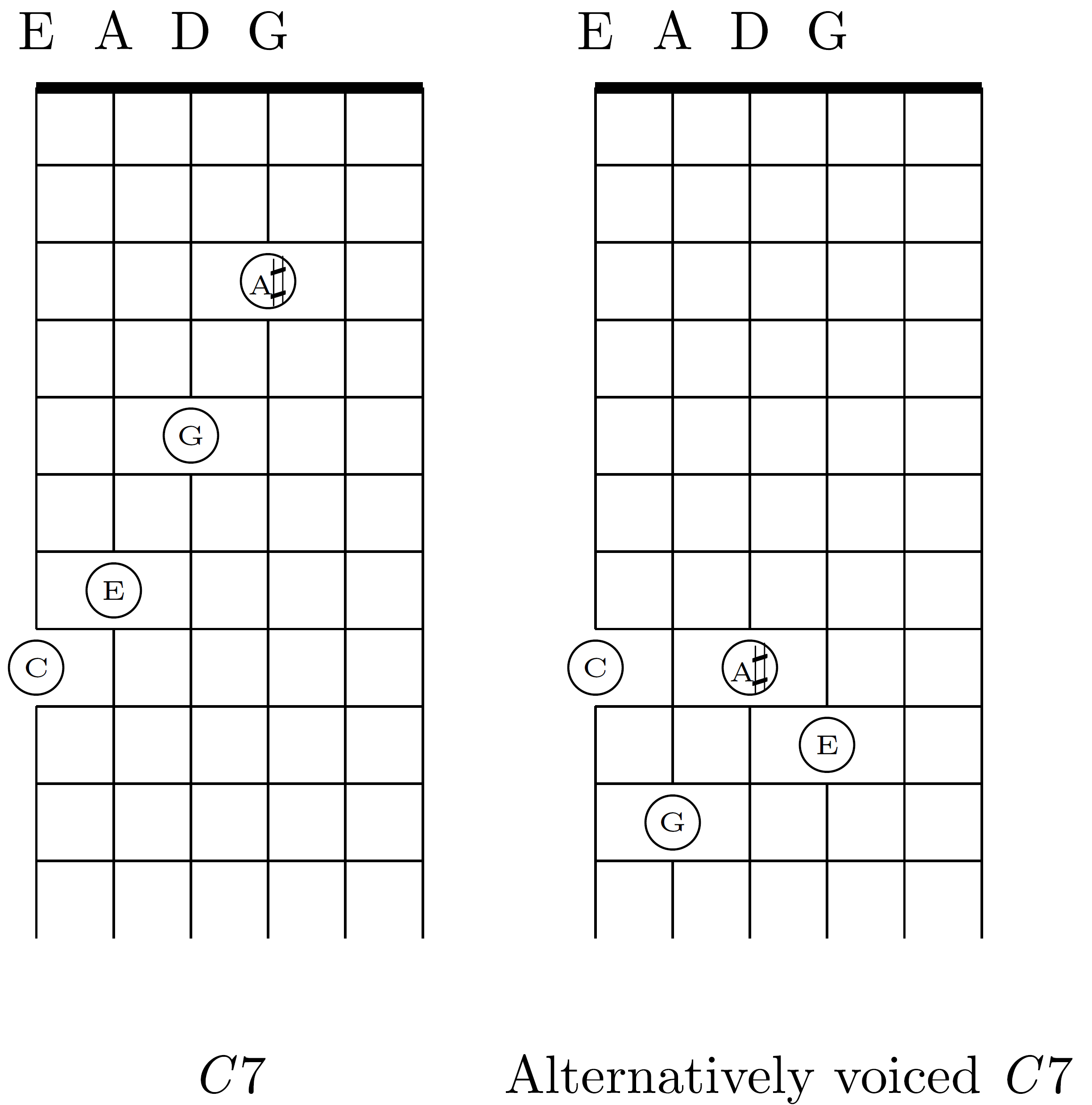 In contrast, seventh chords require severe hand-stretching in standard tuning. Kolb, 2005, Chapter 6: Harmonizing the major scale: Diatonic seventh chords, p. 37:Kolb, Tom (2005) Music theory, Hal Leonard Guitar Method, Hal Leonard Corporation, pp. 1–104 ISBN: 0-634-06651-X. For example, the C7 chord has notes on frets 3-8 in standard tuning (and all-fourths tuning). Consequently, seventh chords are rarely played in standard tuning. Kolb again In their stead, standard-tuning uses "alternatively voiced" chords, which have the same notes but in different order (and perhaps in a different octave). An illustration shows a C7 chord (in standard tuning), which would be extremely difficult to play, and an "alternatively voiced" C7. The alternative voicing of the C7 chord follows the first seventh-chord diagram of Denyer, 1992, "The harmonic guitarist: Seventh chords: The dominant seventh chords", p. 127